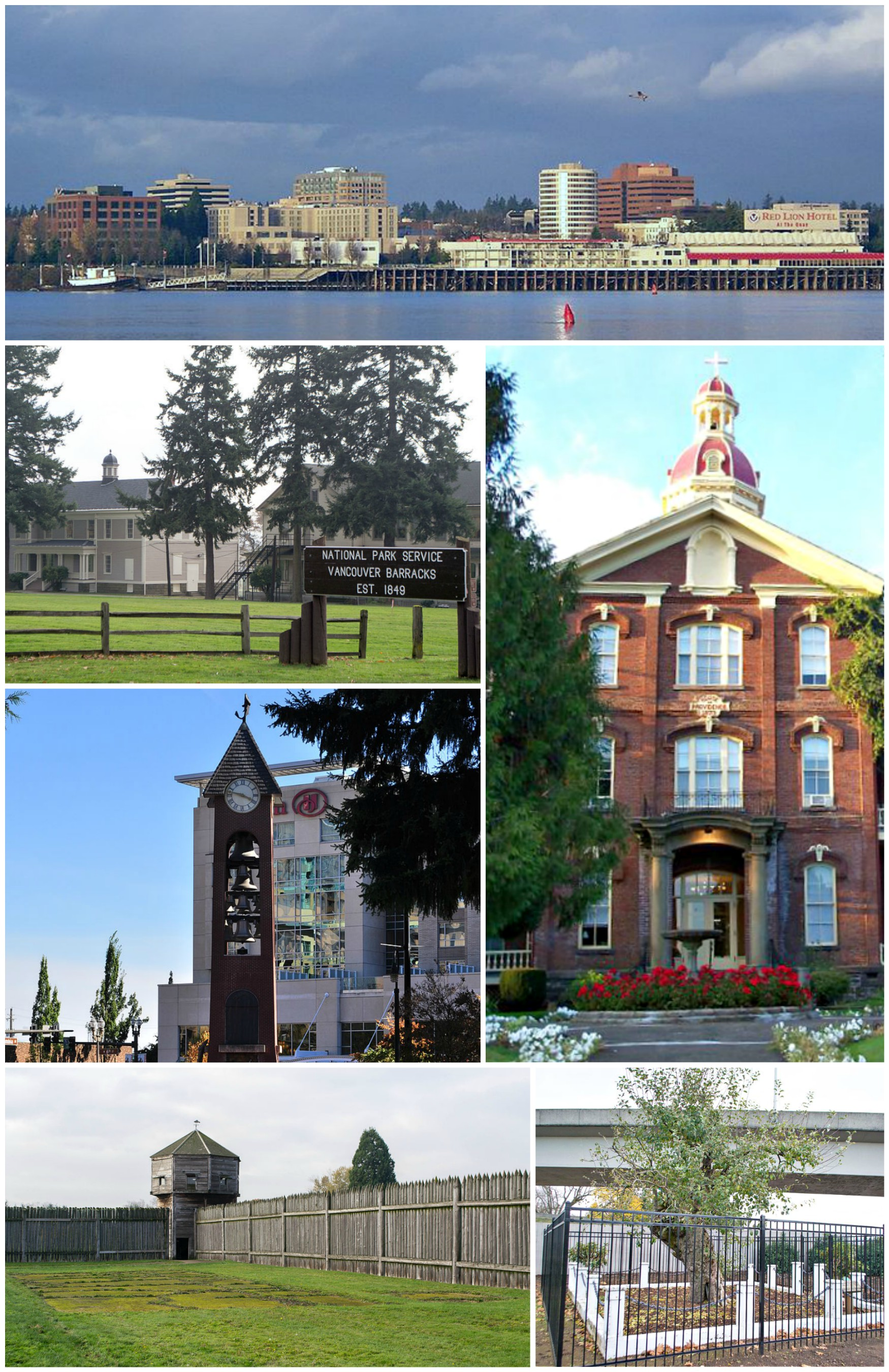 Collage of Vancouver, WA